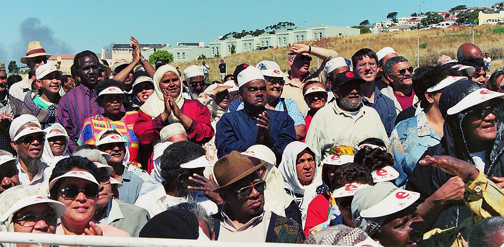 Land claimants at a "handing back District Six" rally in District Six, Cape Town (South Africa), 2001. Picture by Henry Trotter. The author releases it to the public domain.